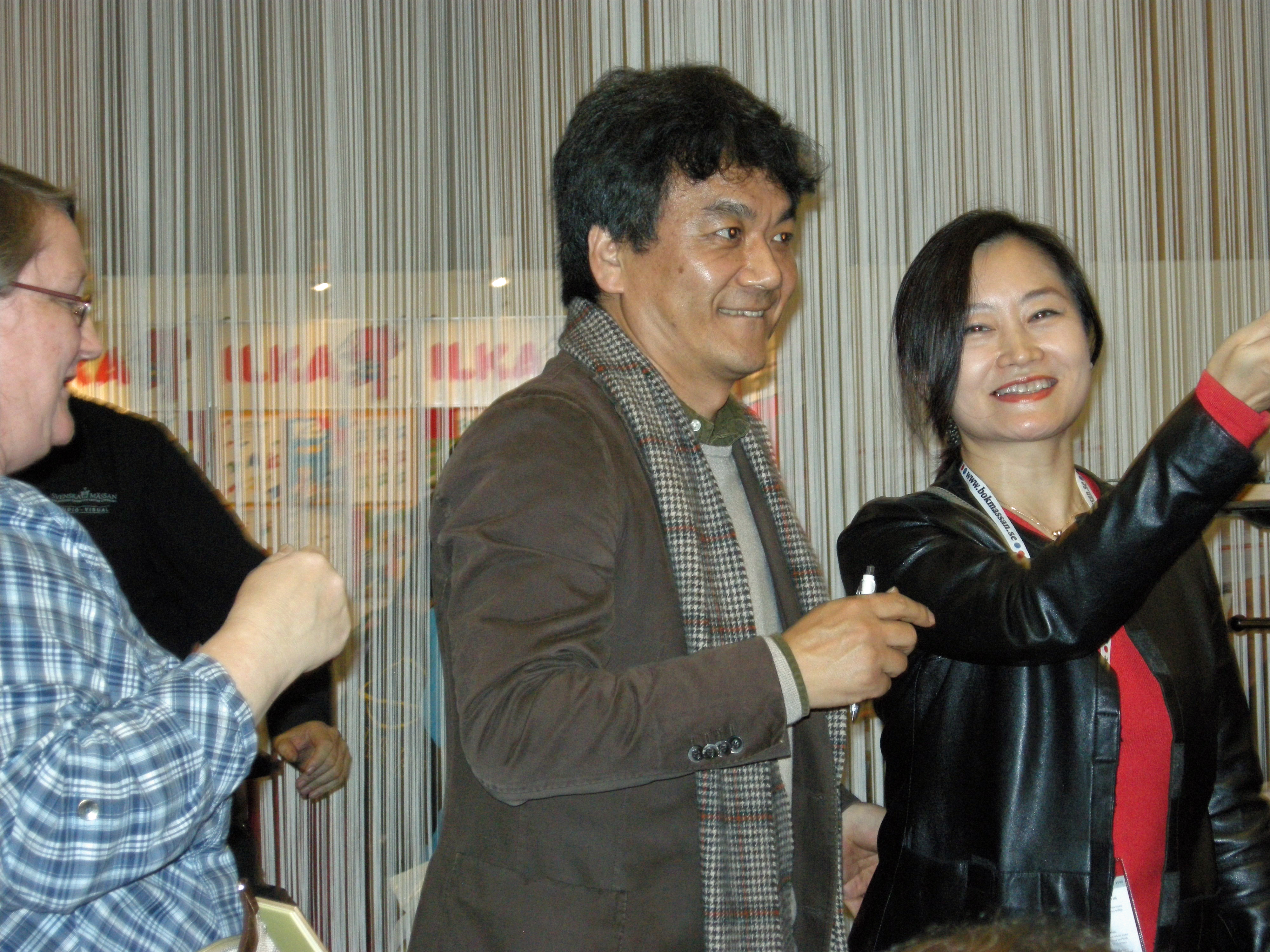 Korean writer, illustrator and publisher Ho Baek Lee at Göteborg Book Fair 2012